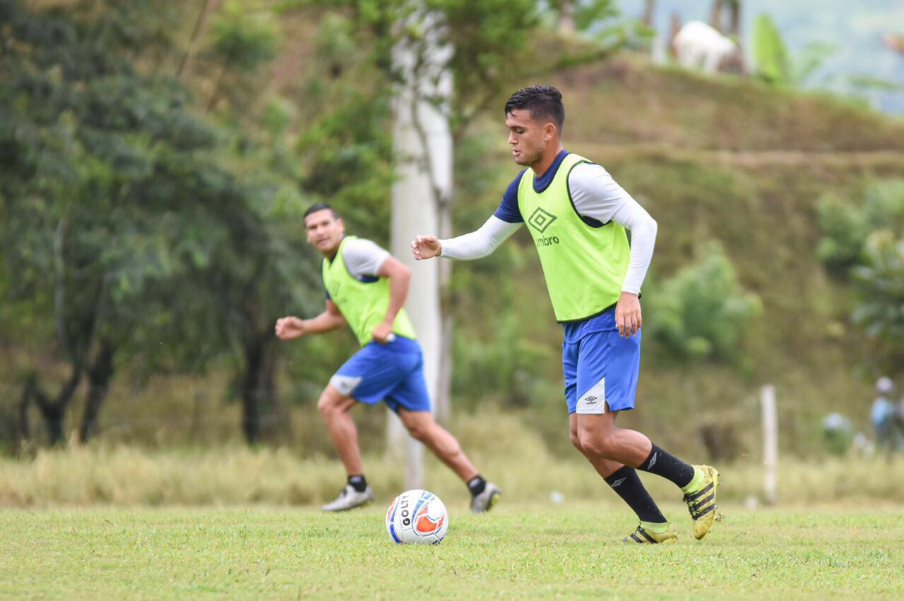 Daniel Rojano